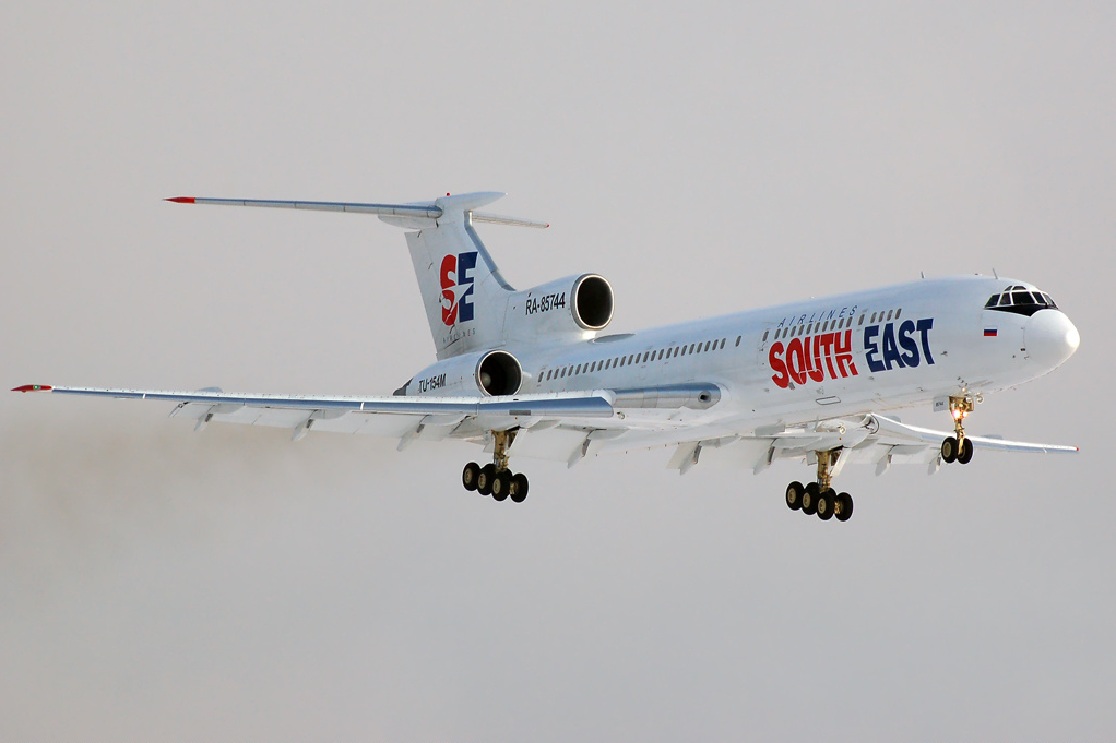 A South East Airlines (aka Dagestan Airlines) Tupolev Tu-154M at Vnukovo Airport (VKO / UUWW). This aircraft crashed on 4 December 2010.